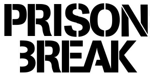 Logo of TV series Prison Break - in two lines